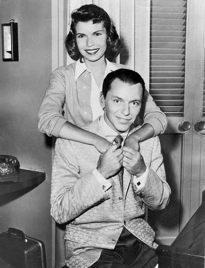 Photo of Frank and Nancy Sinatra during rehearsal for ‘’The Frank Sinatra Show’’ 1959.